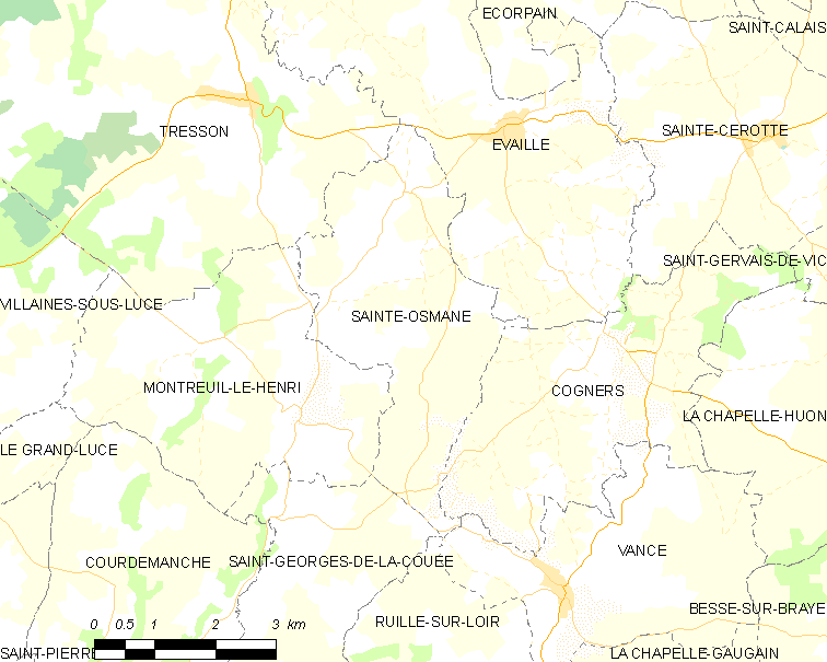 Map of French municipality